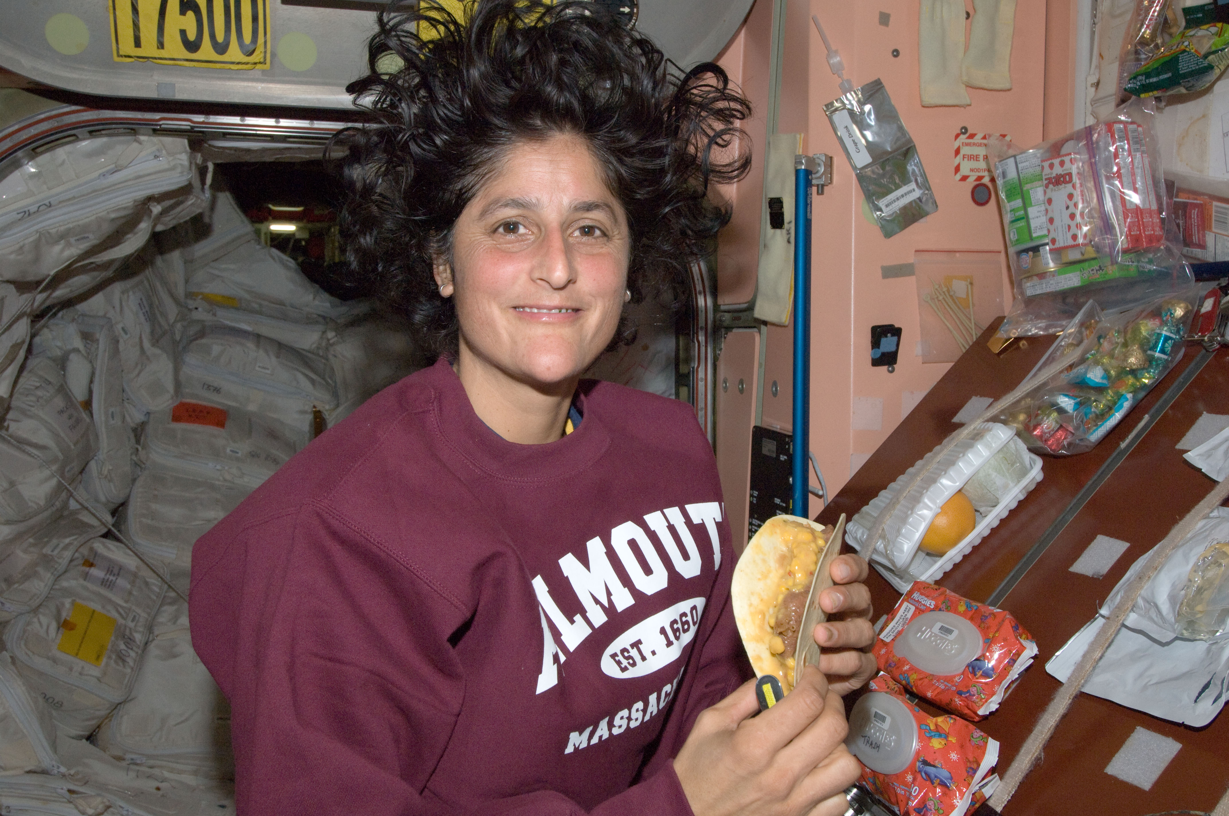 NASA astronaut Sunita Williams, Expedition 32 flight engineer, prepares to eat a snack near the galley in the Unity node of the International Space Station.